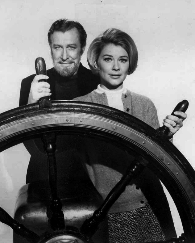 Photo of Edward Mulhare and Hope Lange from the television program The Ghost and Mrs. Muir.